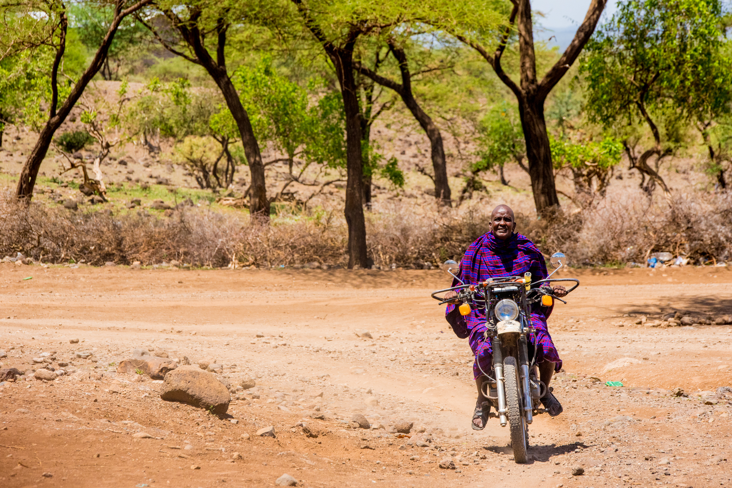 This is an image with the theme "Africa on the Move or Transport" from: Tanzania